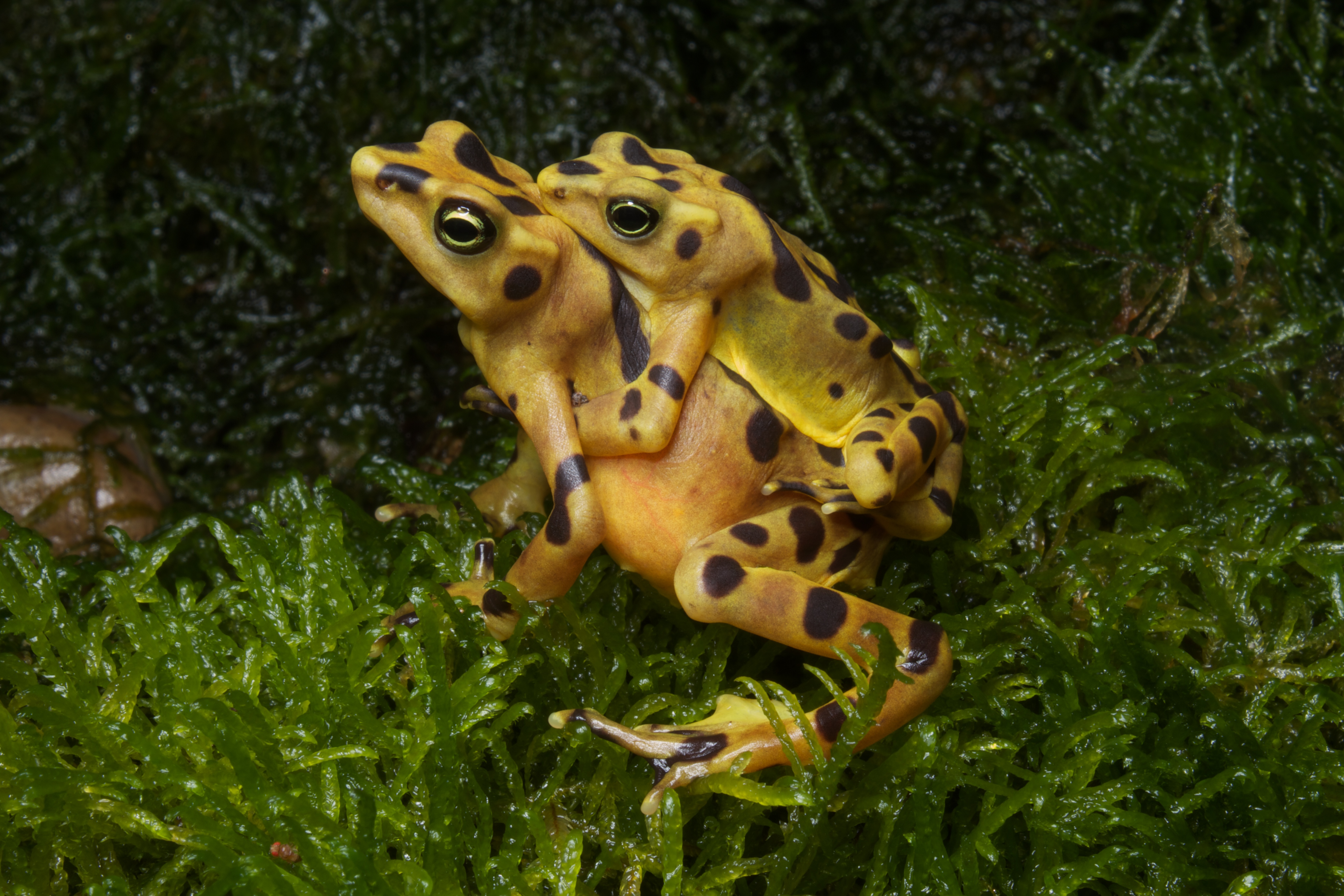 Atelopus zeteki frogs mating